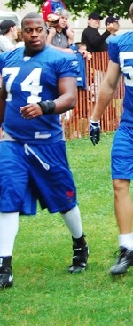 New York Giants defensive end Thomas Davis at training camp in 2007